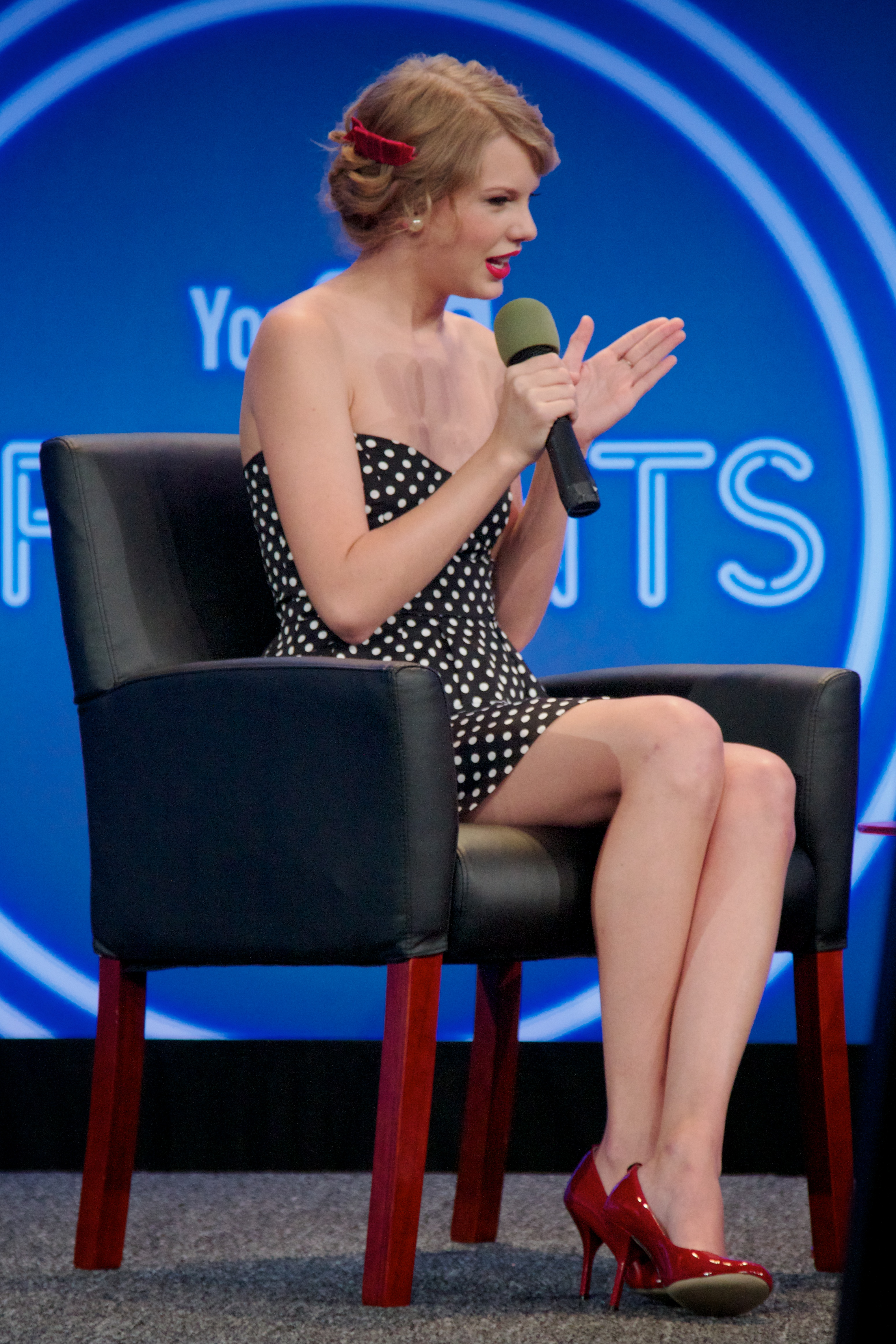 YouTube Presents Taylor Swift.